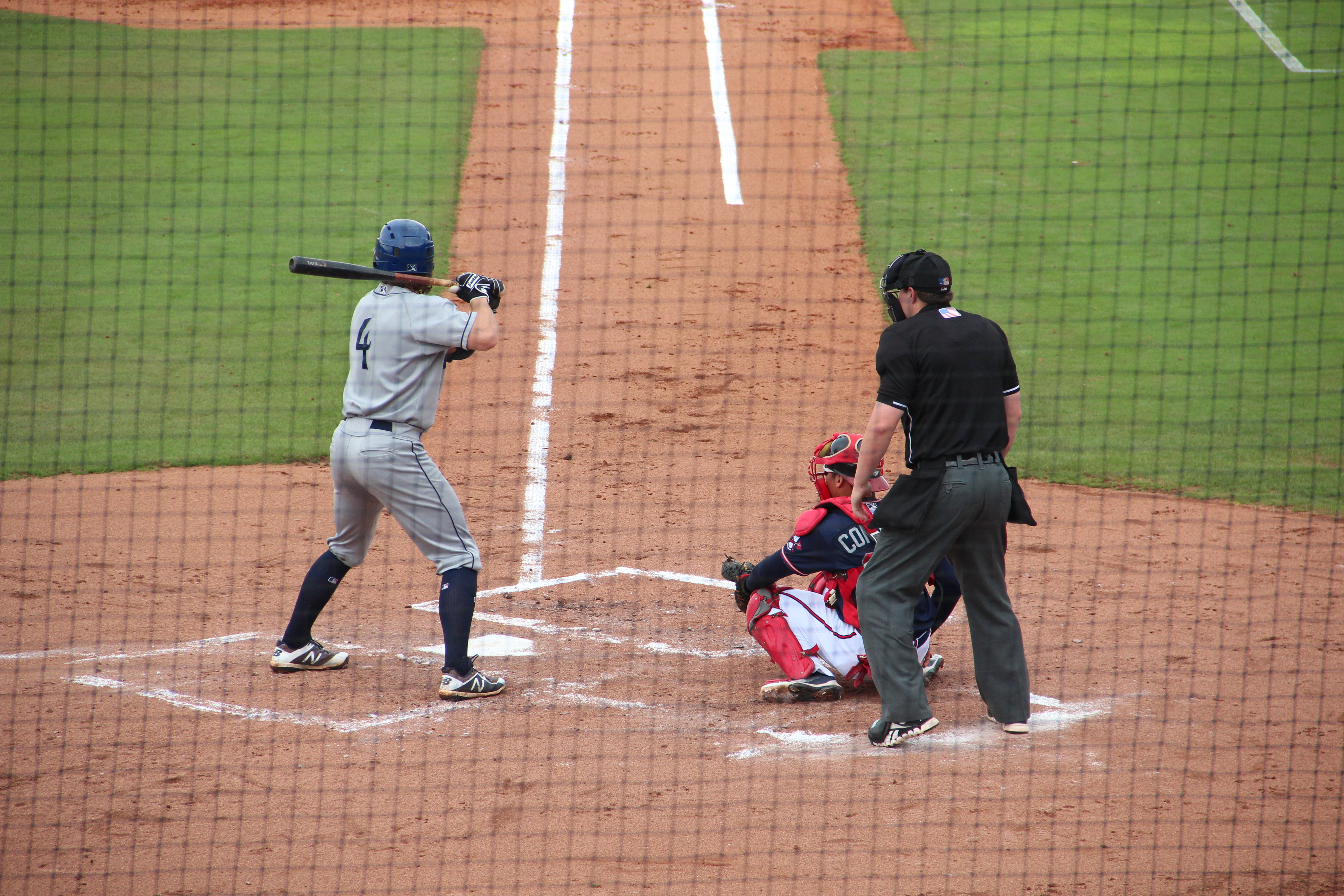 Rome Braves vs. Asheville Tourists, May 30, 2018